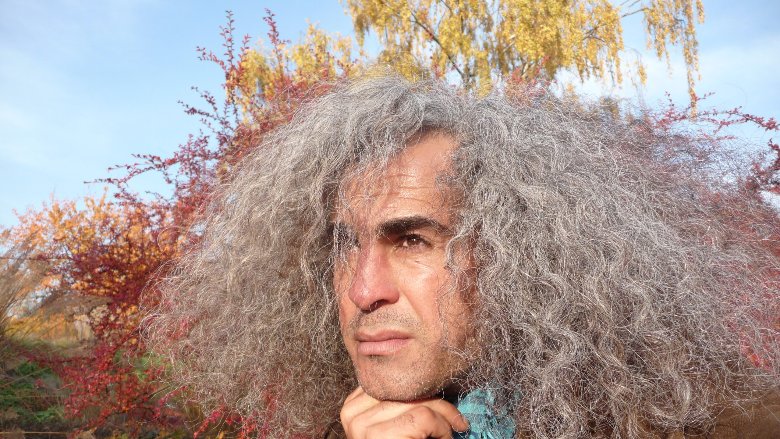 Schamal, Self Portrait in Autumn 2010